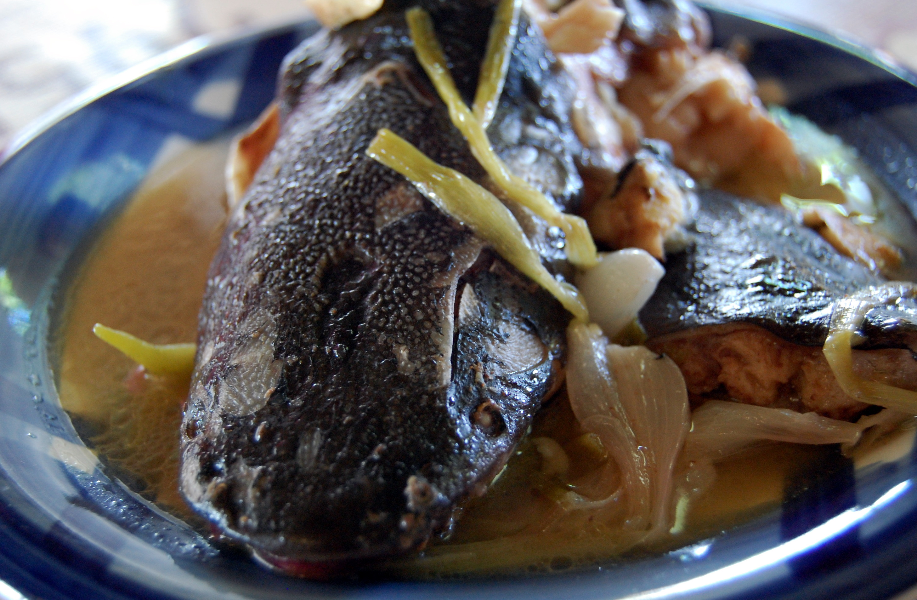 A gift from Kamatsile Gang --- my "friends in low places". Nikon D40 (My 38th Birthday, January 2008)